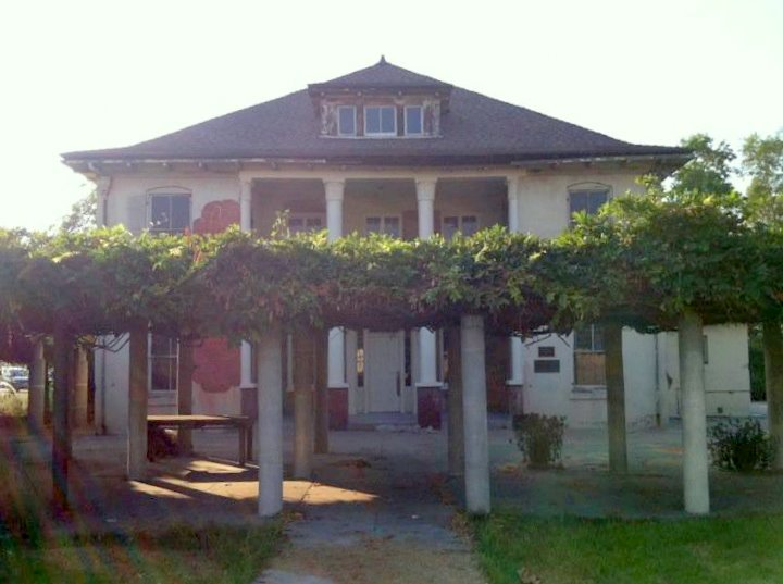 John A. Rowland House — front and pergola. in Hacienda Heights, the San Gabriel Valley of Los Angeles County, California. Taken October 14, 2010